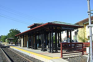 Auburn station in September 2008